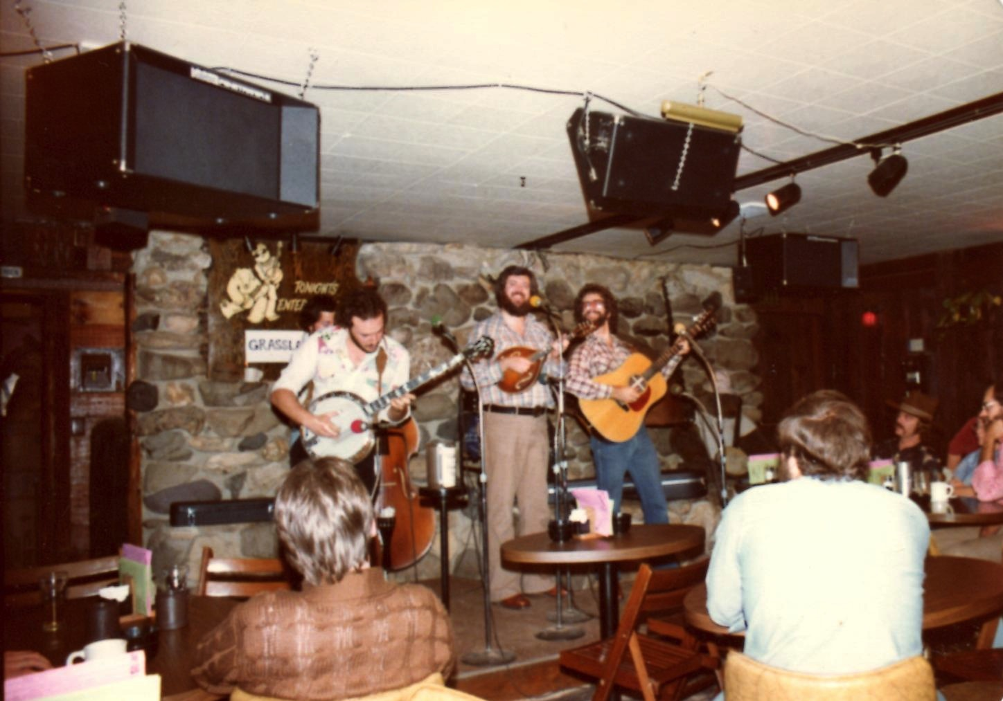 The Banjo Cafe Interior before the Fire